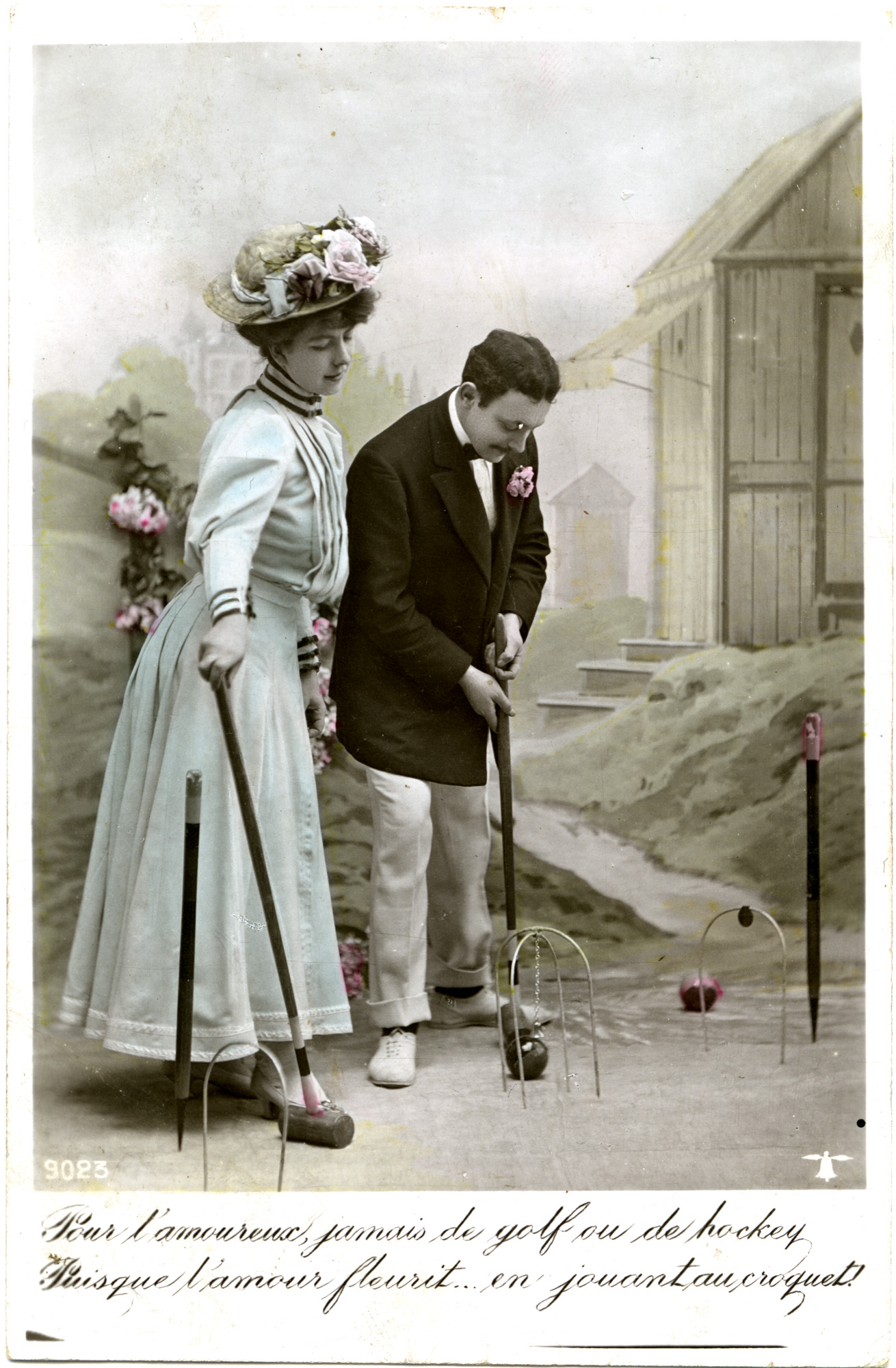 No known copyright restrictions. Please credit UBC Library as the image source. For more information, see Description: "Pour l'amoureux, jamais de golf ou de hockey. Puisque l'amour fleurit... en jouant au croquet!" Creator: Unknown Date Created: 1909 Source: Original Format: University of British Columbia. Library. Rare Books and Special Collections. Arkley Croquet Collection. Permanent URL